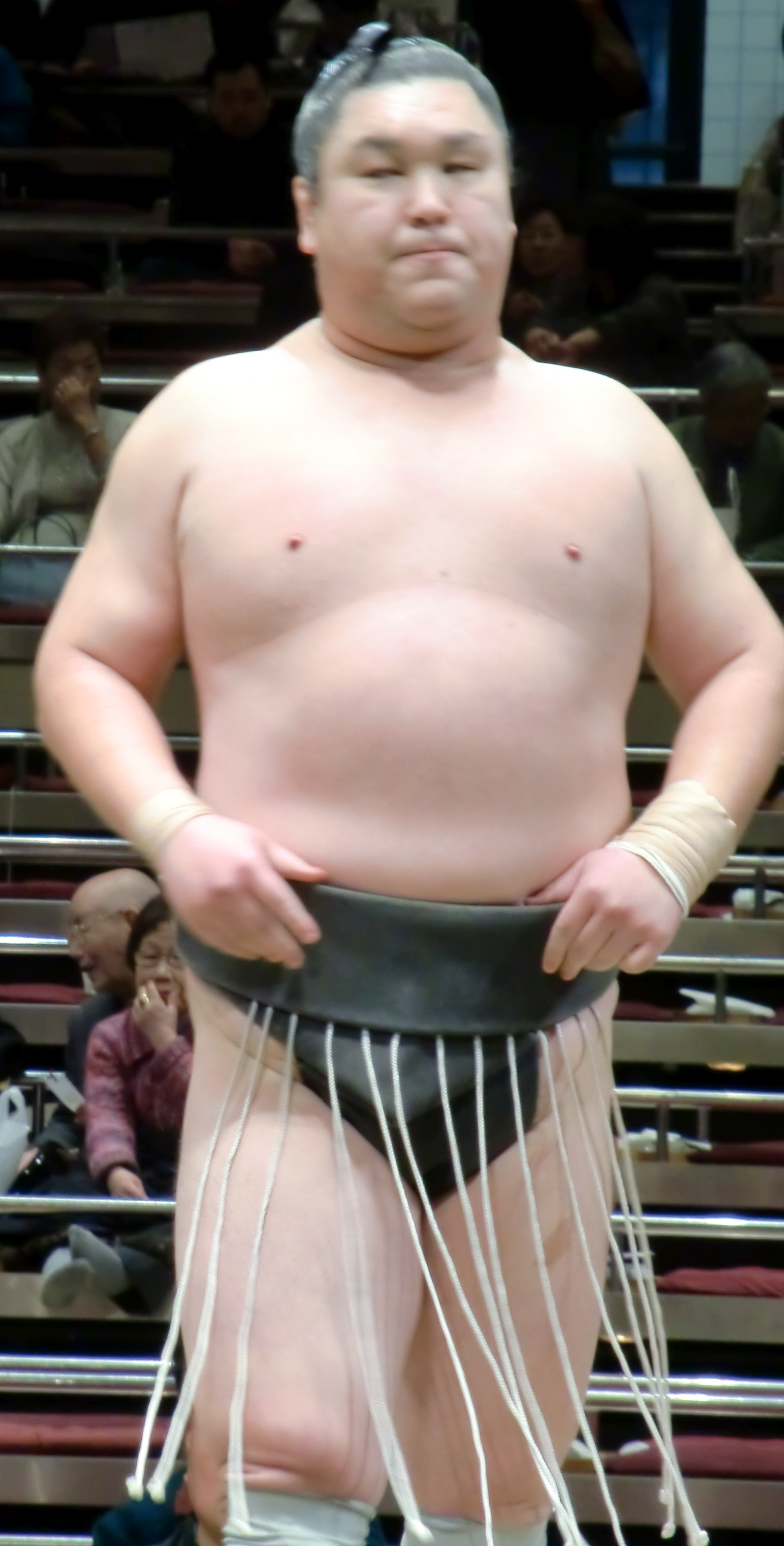 taken at Jan 2010 tournament